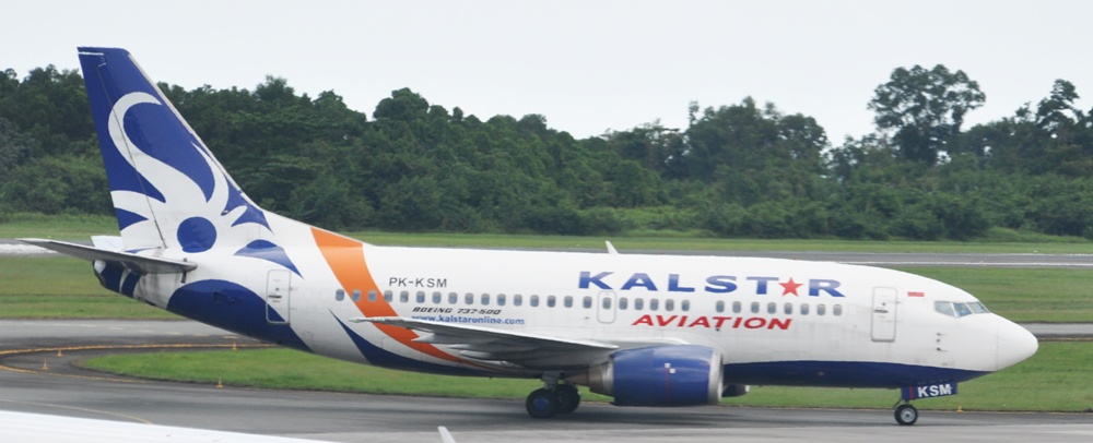 Kal Star Aviation Boeing 737-500 from Malang as KD683